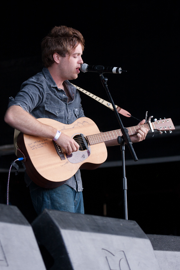 Benjamin Francis Leftwich performing at the Jersey Live 2011 festival, in the Channel Islands.